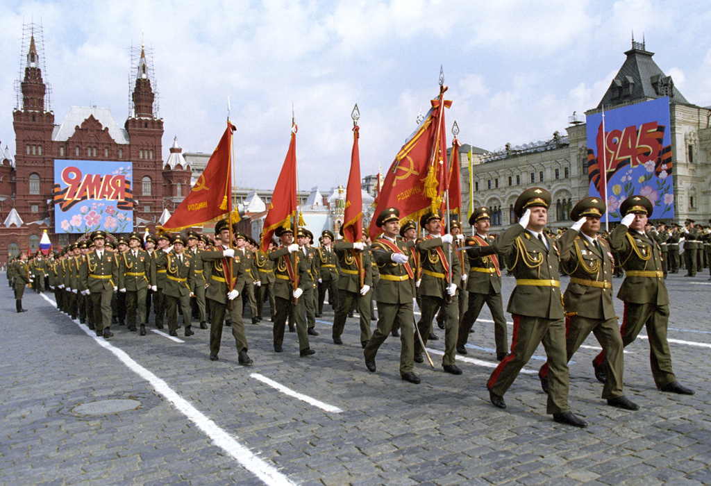 “Military parade on Red Square on May 9”. May 9 Military parade on the occasion of 52nd anniversary of Soviet people's Victory in the Great Patriotic War of 1941-1945.